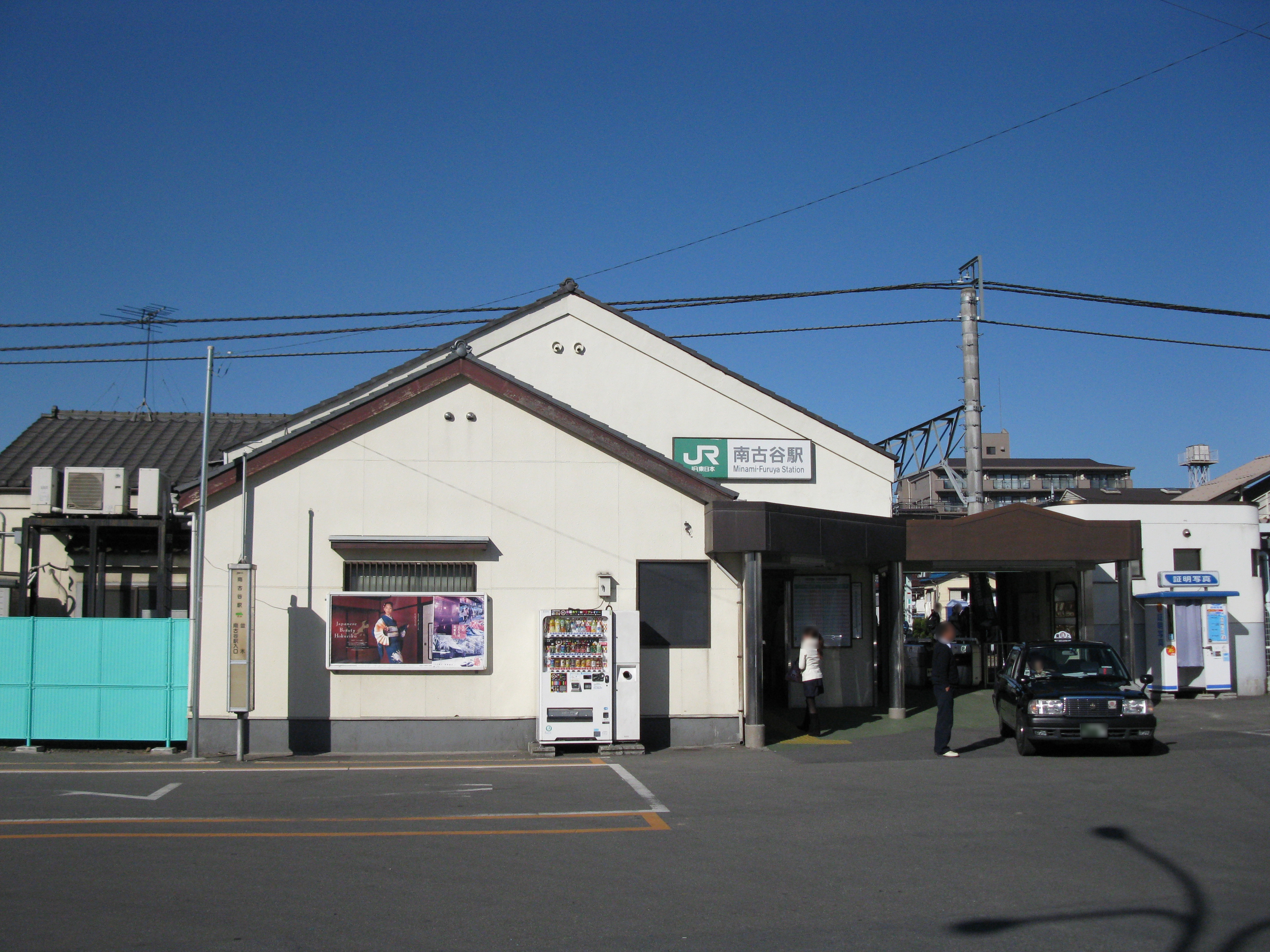 Minami-Furuya Station building (East Japan Railway Kawagoe Line)